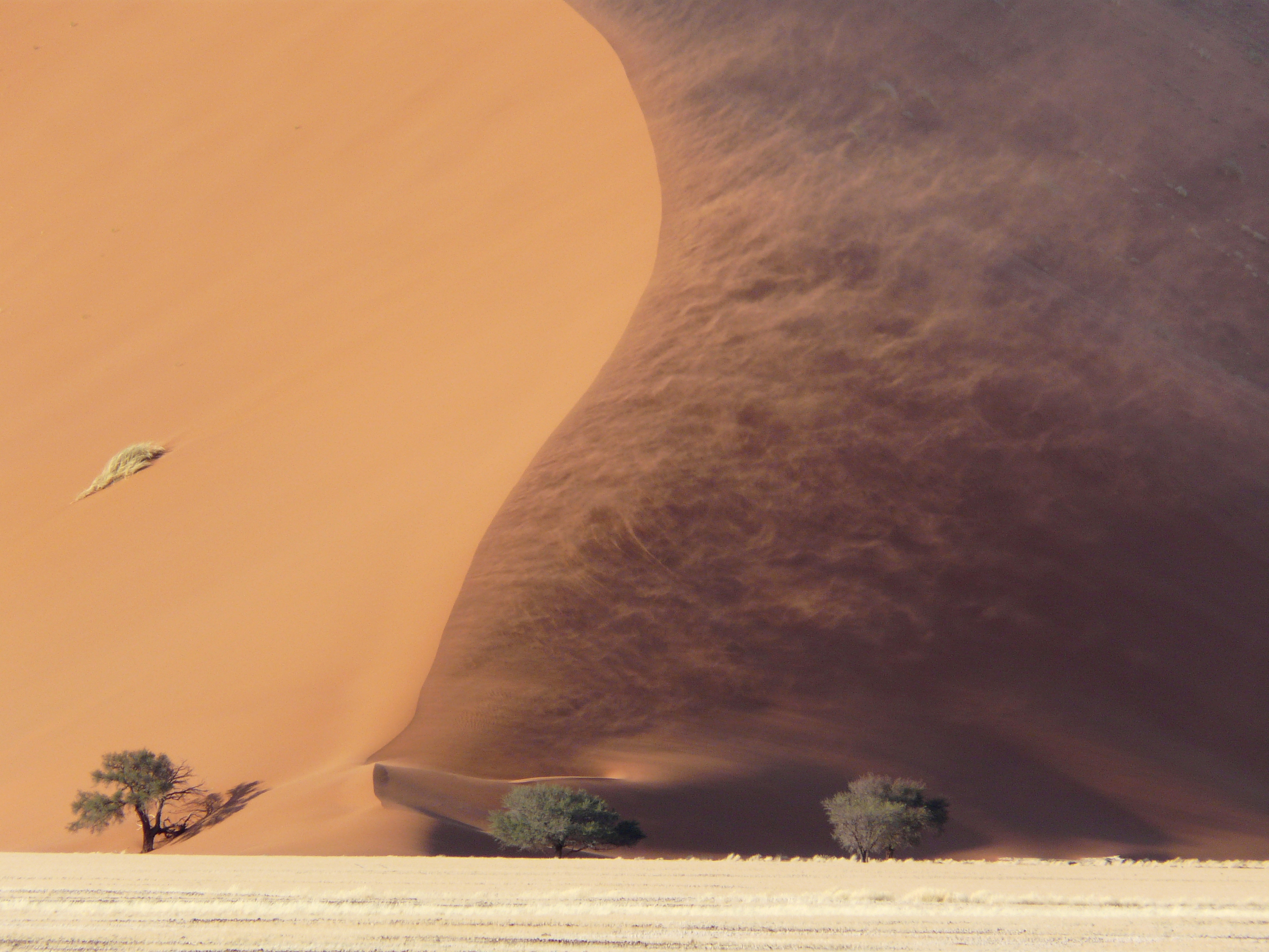 Sossusvlei, sand (Namibia)